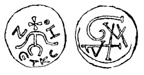 Denarius with reputed monogram ofSieciech